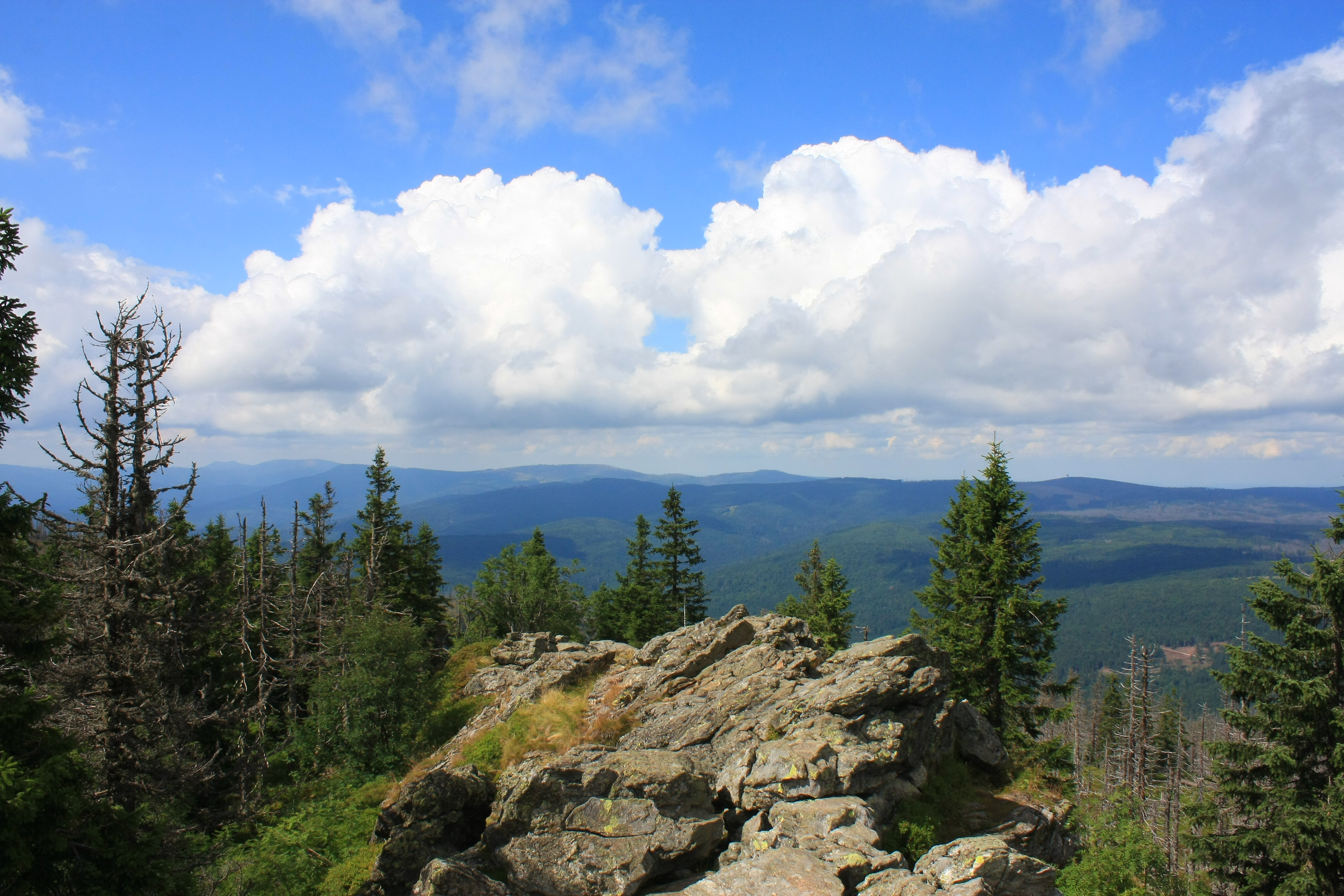 Rachel, Bavarian Forest Nationalpark.